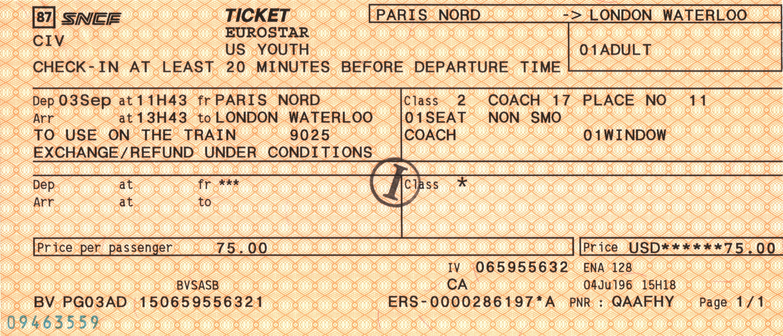 An Eurostar ticket from Paris Nord to London Waterloo, issued in 1996. Partly retouched to remove personal information